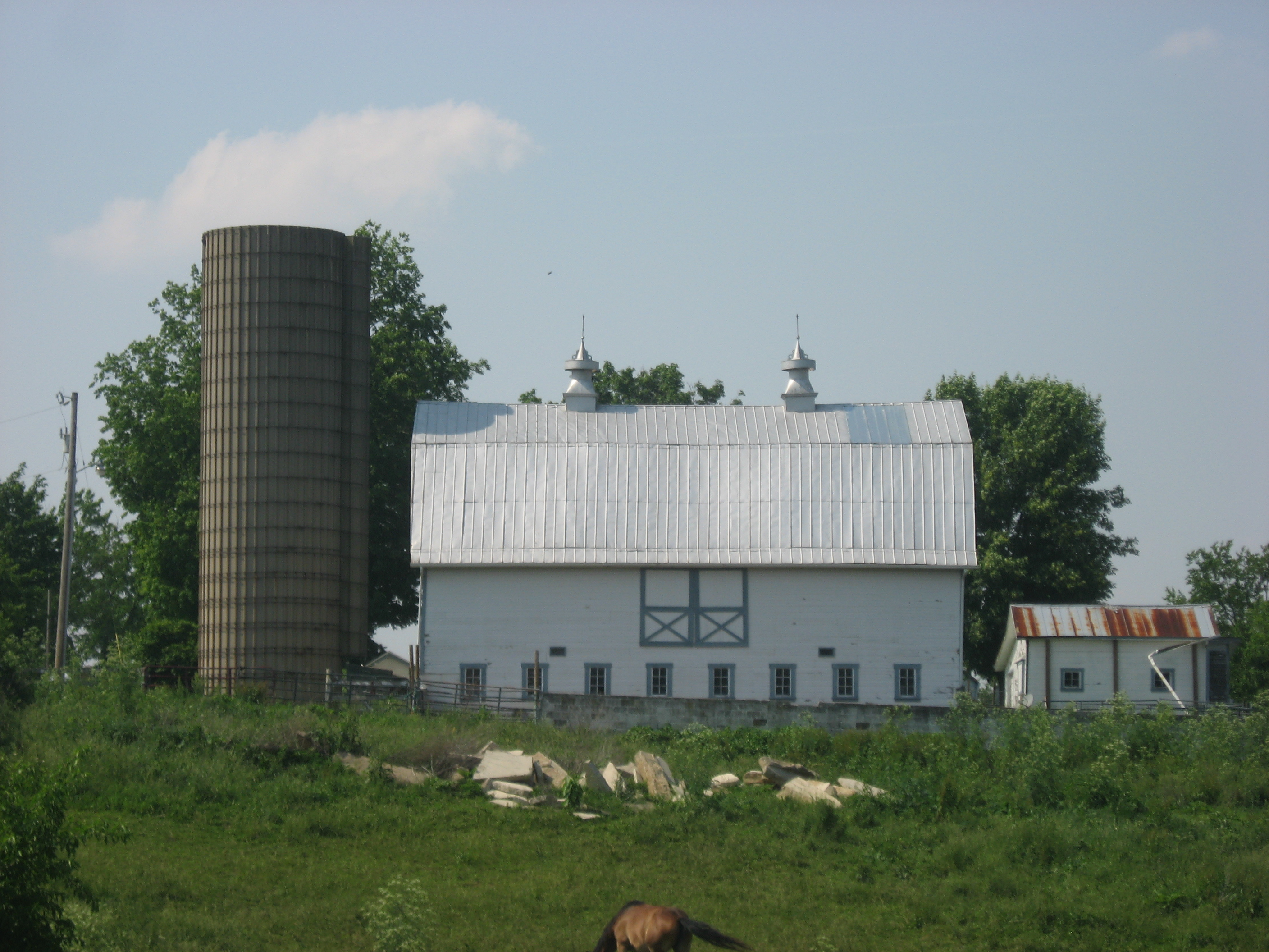 Barn and other buildings at the McDonald Farm, located at 1446 Stone Road southeast of Xenia in Xenia Township, Greene County, Ohio, United States. Besides the buildings shown here, the farm includes an 1829 farmhouse and the quarry from which was taken some of the stone used to build the Washington Monument. The farm complex is listed on the National Register of Historic Places as a historic district.